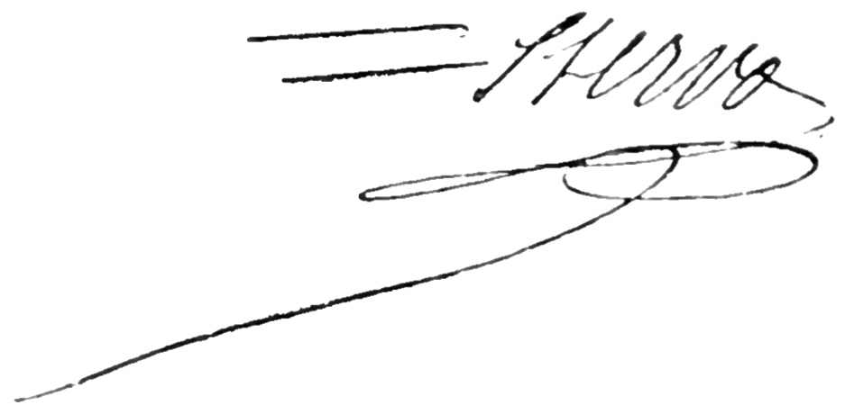 Signature of french general Claude-Marie Hervo (1766-1809)